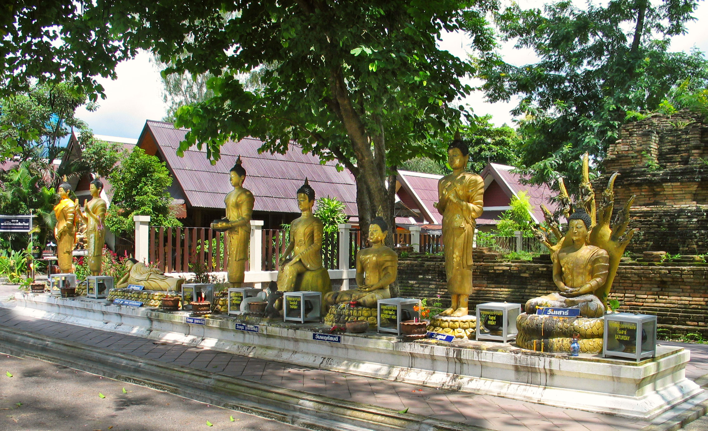 Buddha image for each day of the week, Wat Chet Yot, Chiang Mai, Thailand